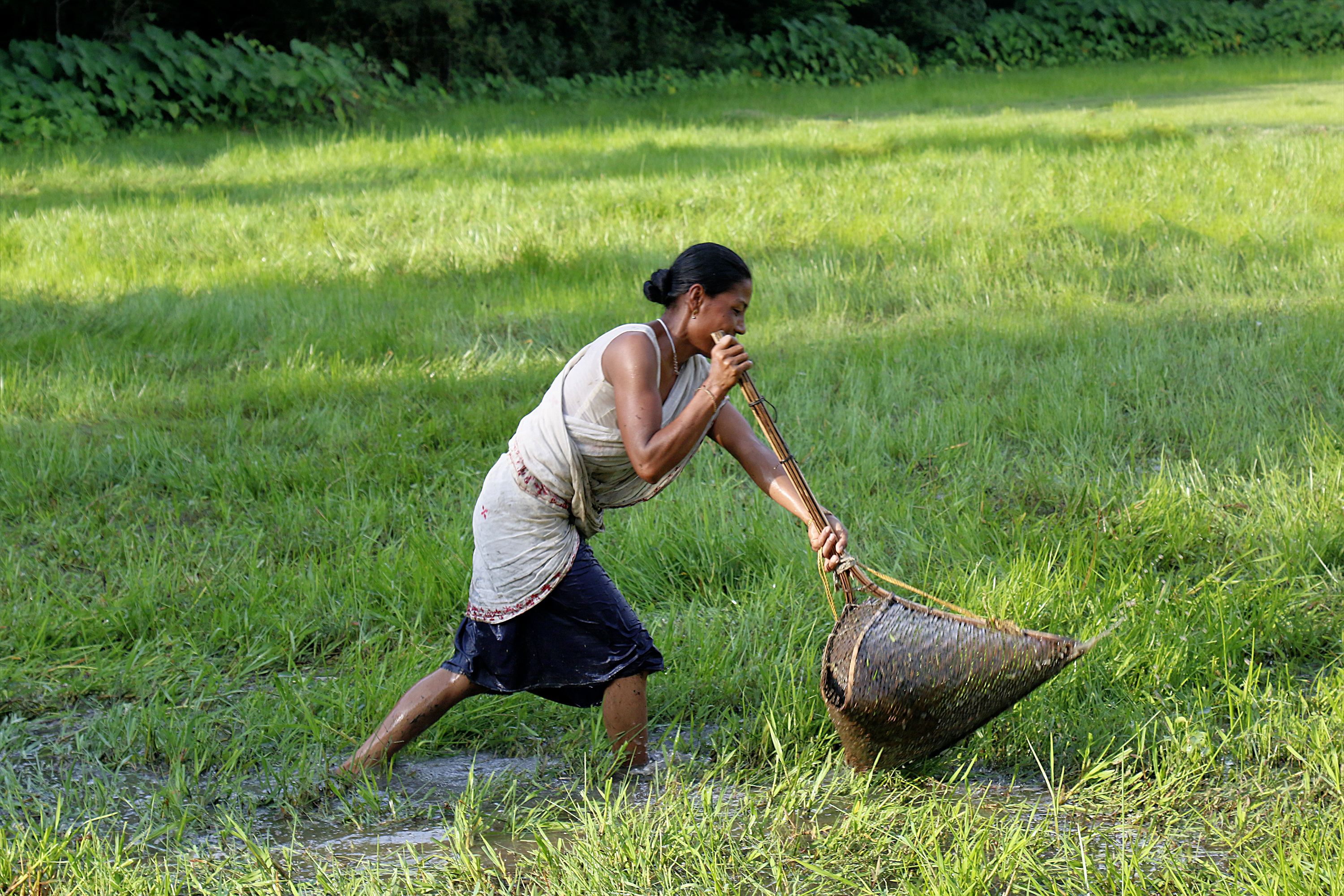 An Assamese woman catching with traditional fish catching device made of Bamboo which is known as "Jakoi "